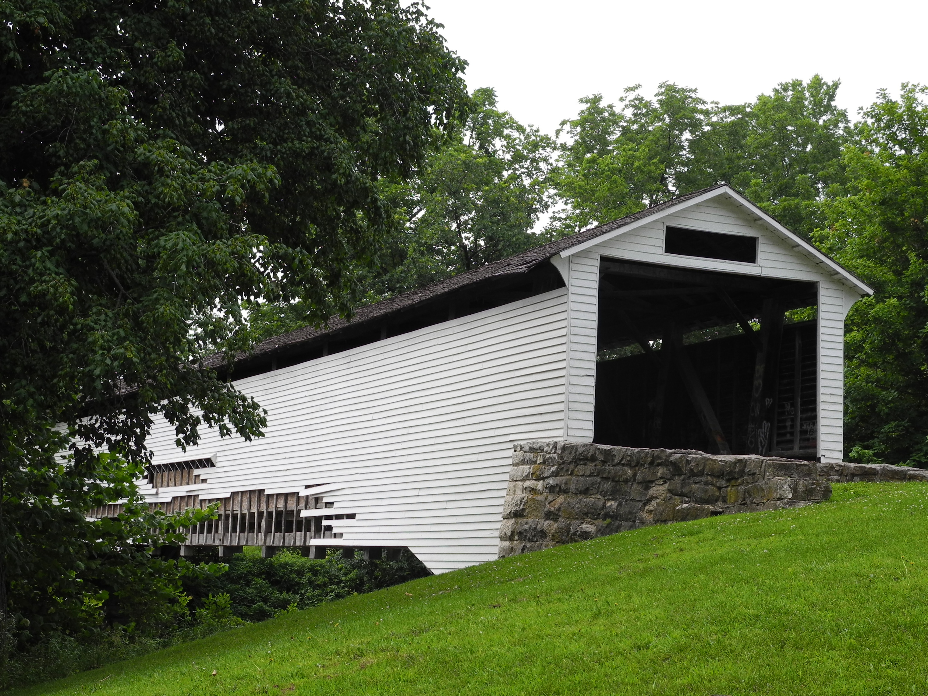 Union Covered Bridge in Monroe County, Missouri, USA. This is one of four remaining covered bridges in Missouri, all of which are protected by the Department of Natural Resources' parks department as historic sites.